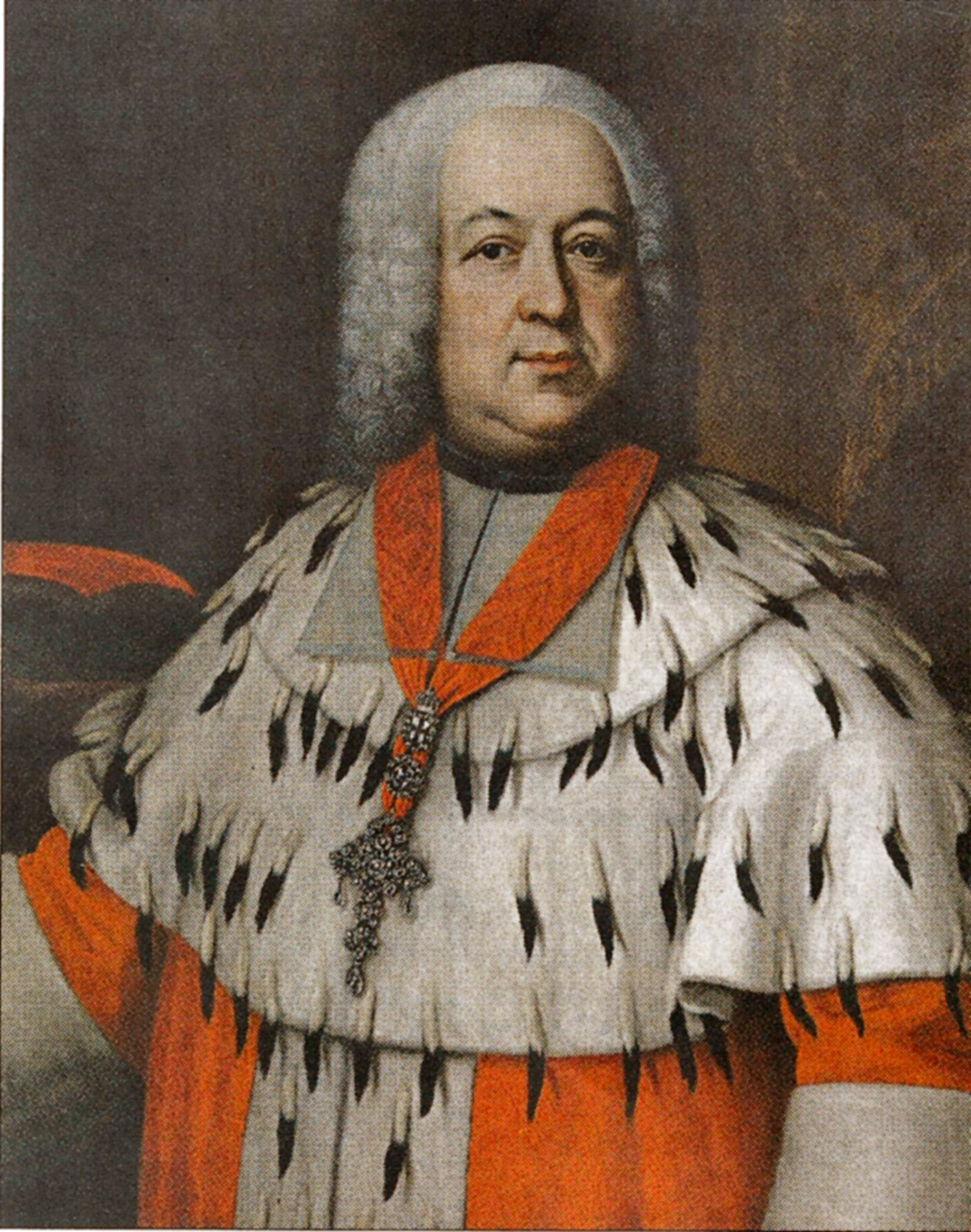 Portrait of Johann Friedrich Karl von Ostein (1689-1763)